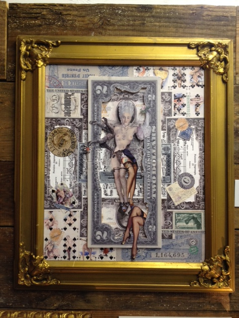 This is an example of Visual Focus Depth Art on Gallery display. It shows the depth of field and use of texture. Original Art by French Artist Simone-2014